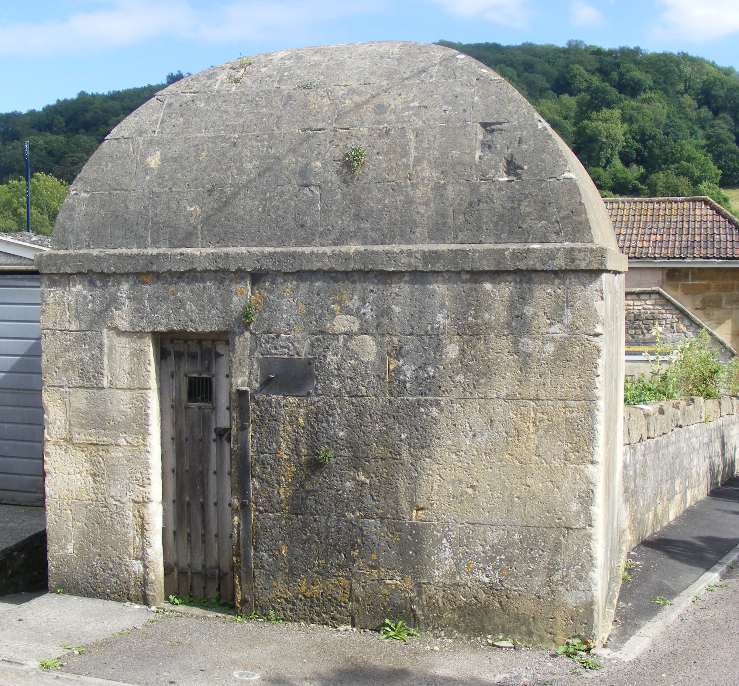 The parish lock-up, Mill Lane, Monkton Combe, Somerset, seen from the southwest